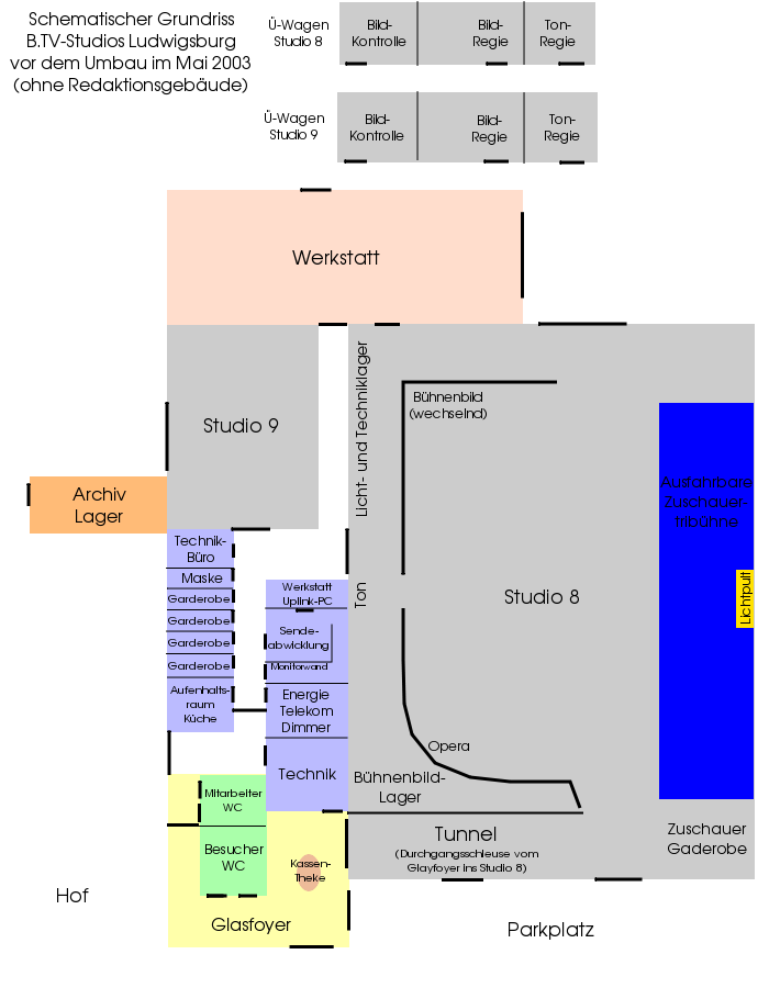 Schematic ground plan of B.TV-Studios Ludwigsburg before modification in May 2003